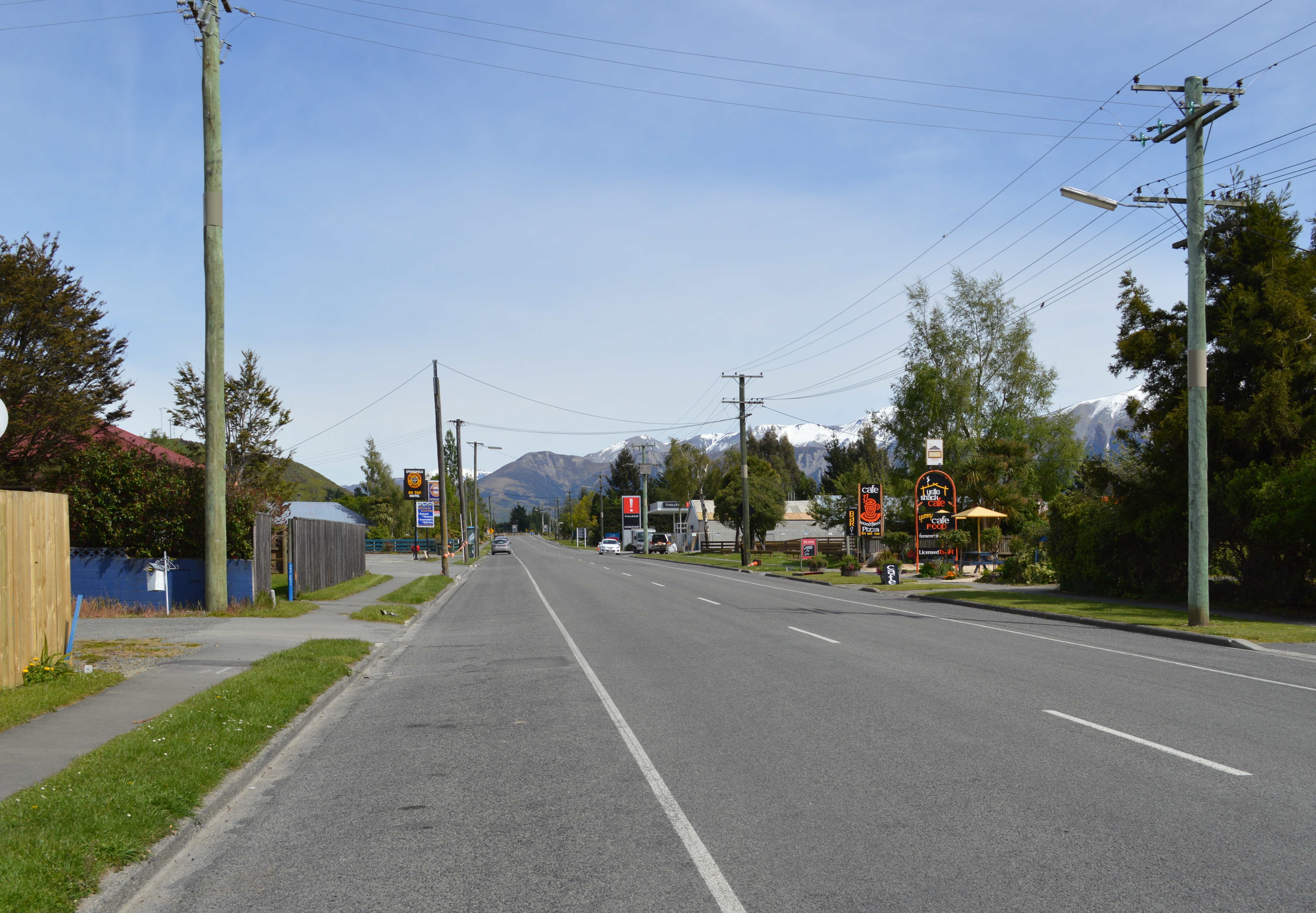 The main street (New Zealand State Highway 75) of Springfield, New Zealand